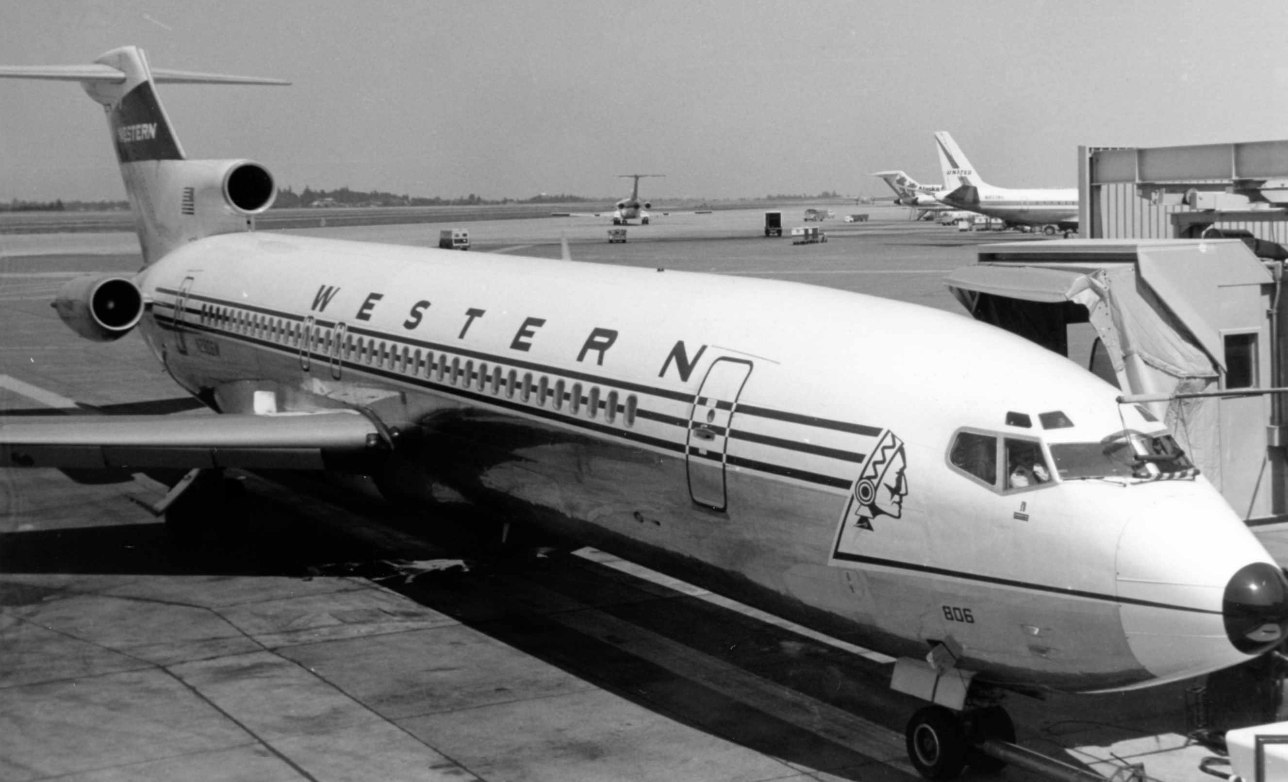 United States, Seattle–Tacoma International Airport. Western Airlines Boeing 727-247, N2806W, c/n 20268/764, first flight on October 30, 1969 and delivered to Western Airlines on November 14, 1969. Sold to Alaska Airlines and registered N326AS, maintened the same registration with numerous other operator. The last one was with Air Atlantic Dominicana and Allegro registered XA-SXO. Stored at Miami International Airport since September 2001